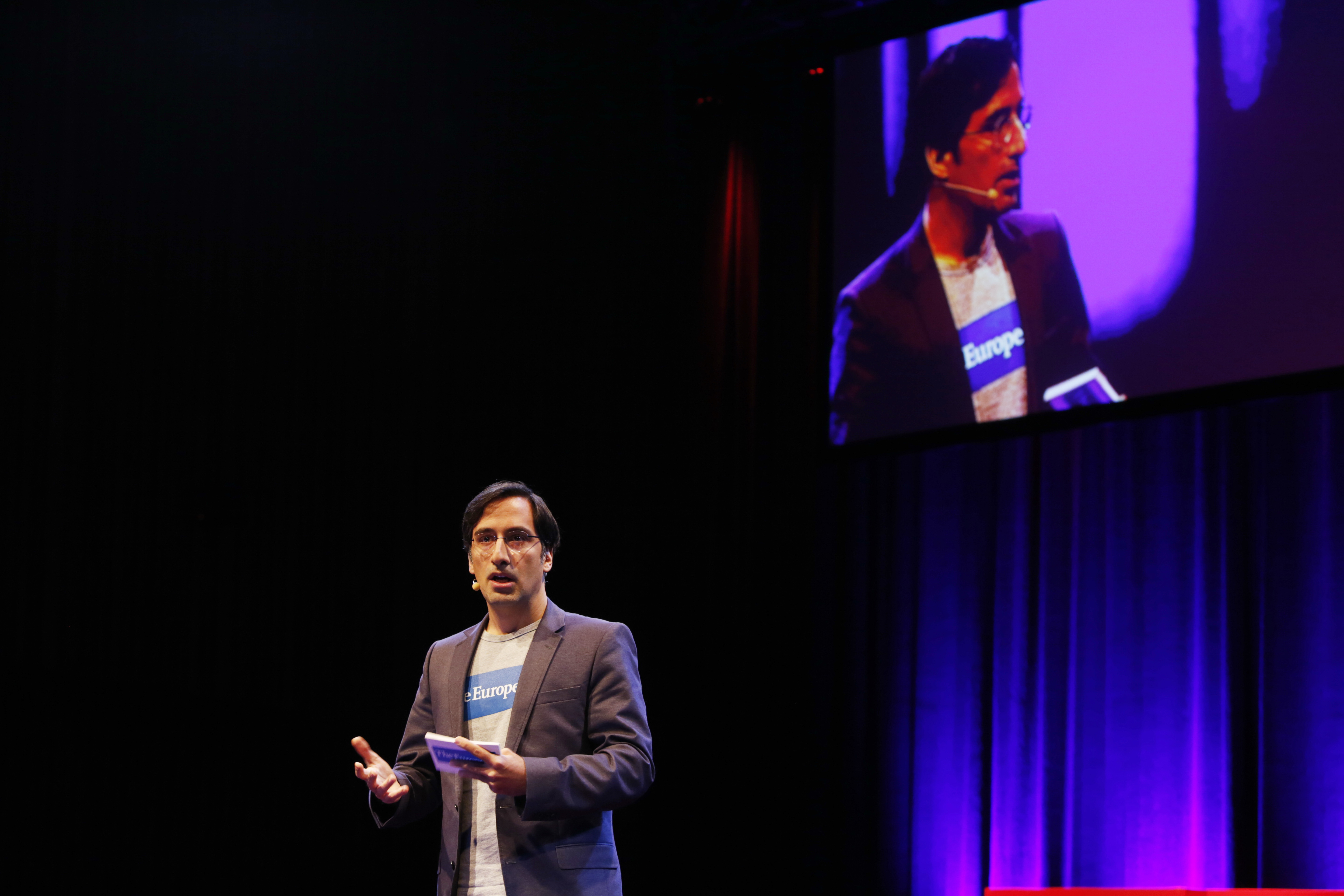 Alexander Görlach, founder and publisher of the German magazine The European on stage at Tedx Berlin, which took place at the House of World Cultures in Berlin, Germany.